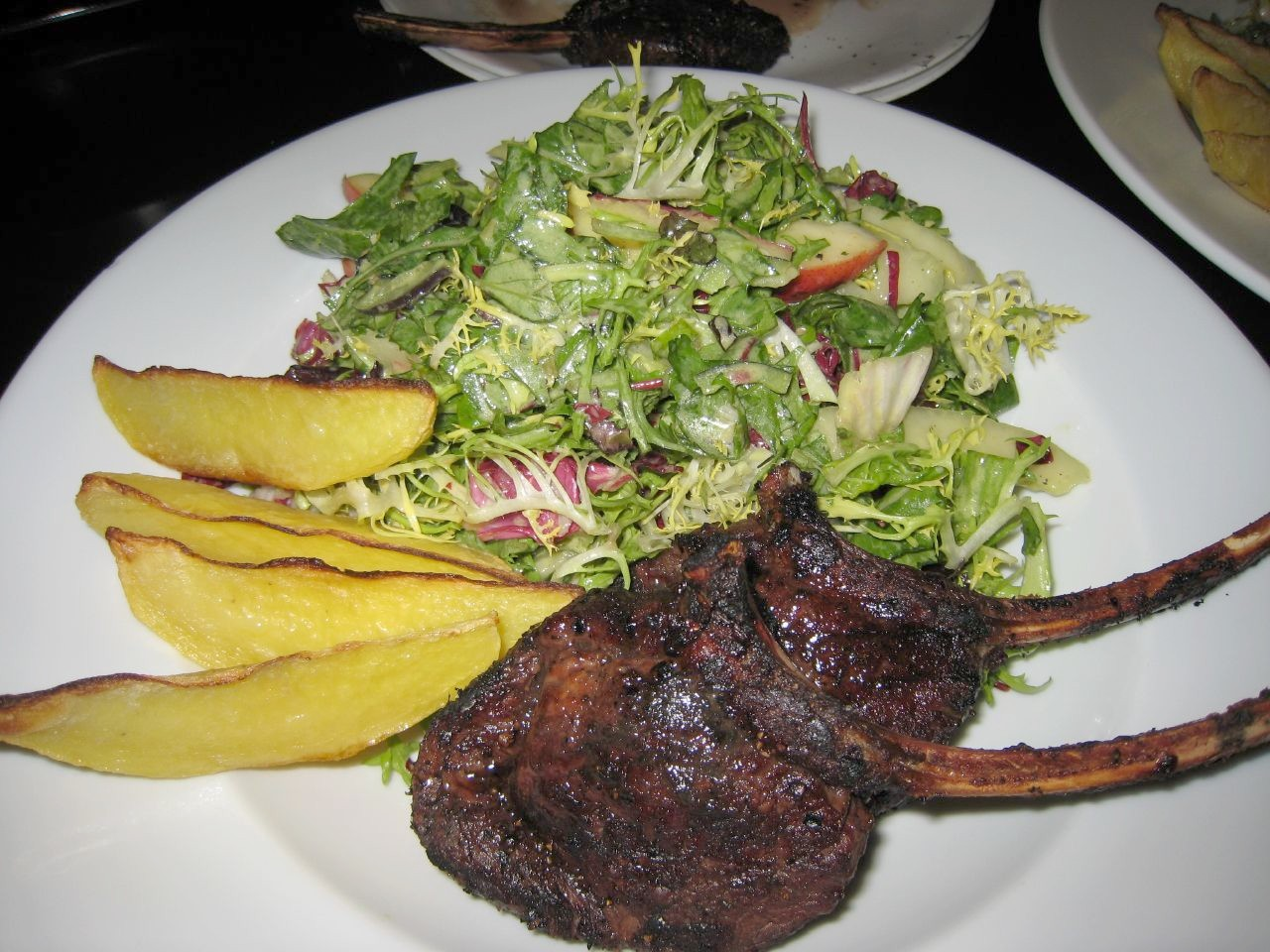 Elk rib chops grilled over a wood fire, roasted yukon gold potatoes and a salad with persian melon, red anjou pears and fresh figs.